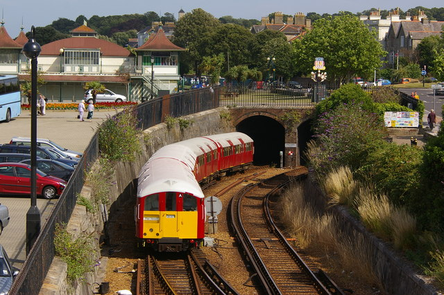 Class 483 Island Line train about to enter Ryde Tunnel. This tunnel is the reason these trains are used on the Isle of Wight. The tunnel roof is 10 inches too low to allow the use of standard height trains. This picture shows two units working in multiple to form a four car set.